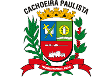 Coat of Arms of São Paulo's Cachoeira Paulista city, Brazil.